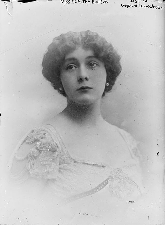 Miss Dorothy Bigelow, Lallie Charles Photo Reproduction Number LC-DIG-ggbain-04915 (digital file from original neg.)